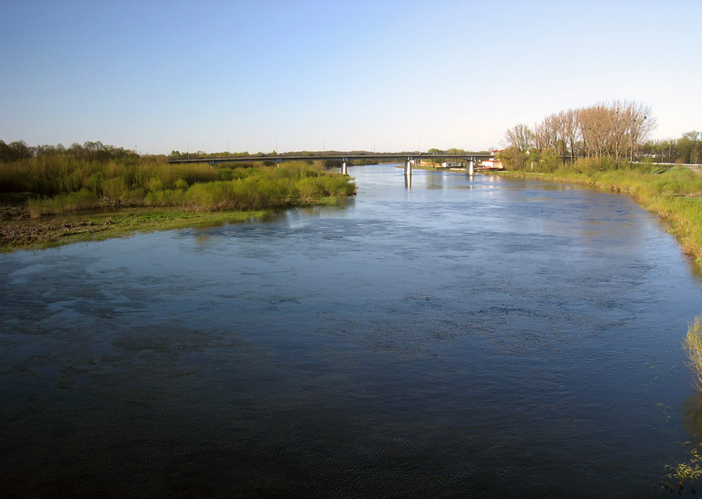 City of Ostroleka (Poland), the Narew River.